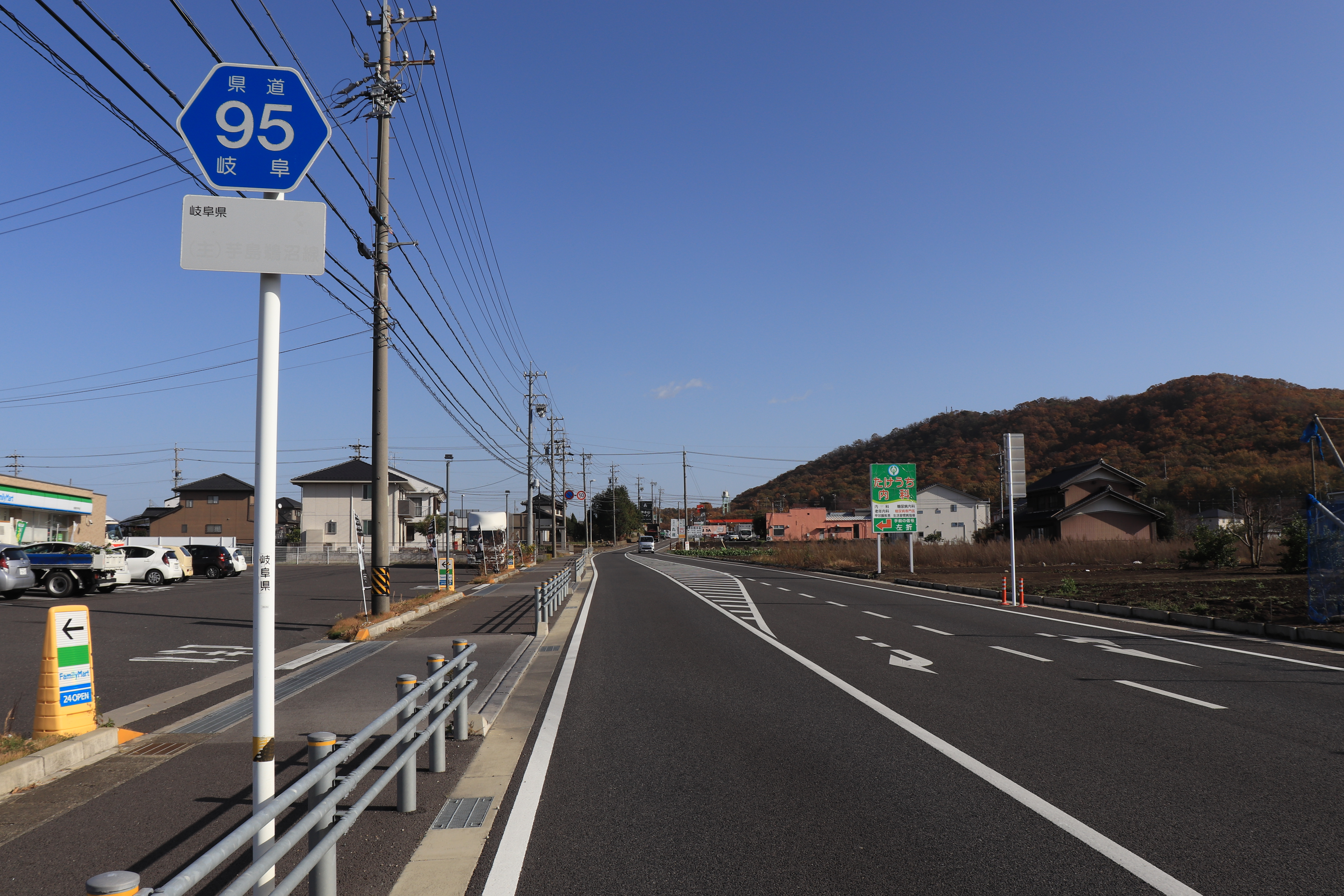 Gifu Prefectural Road Route 95 and Mount Igi in Unumaoigicho, Kakamigahara, Gifu Prefectue, Japan.